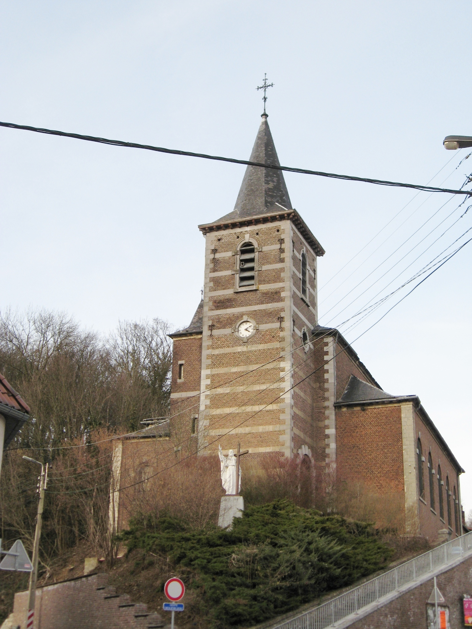 Church of Saint Peter in Bassenge, Liège, Belgium